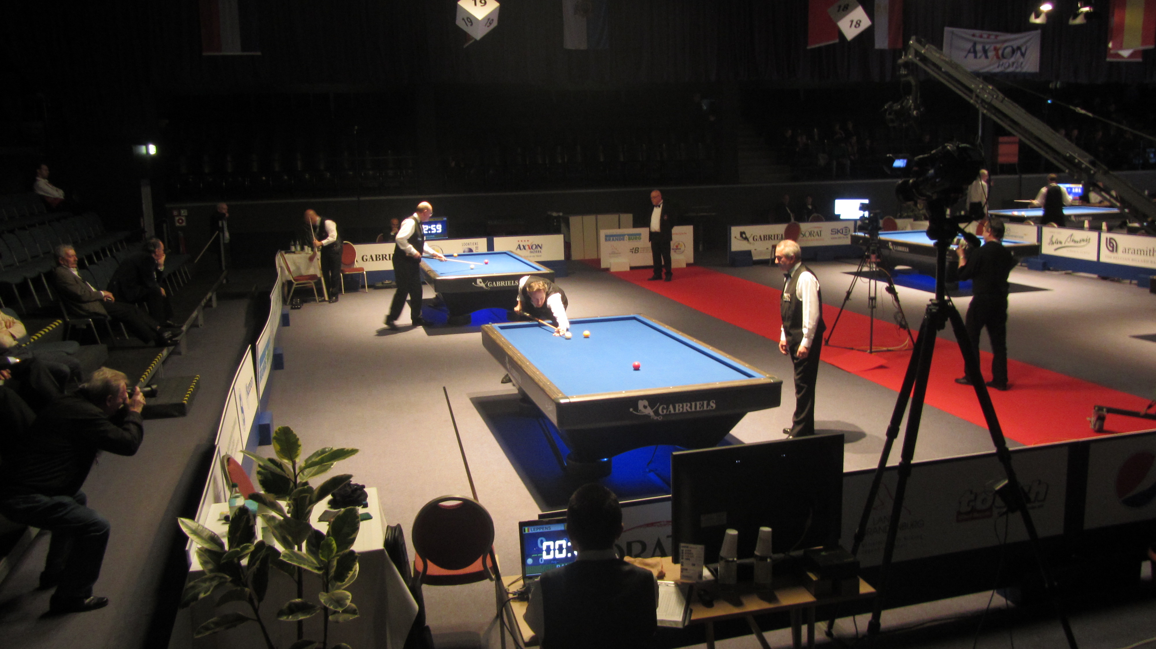 2013 European Carom Billiards Championship in Brandenburg/Havel, Germany.